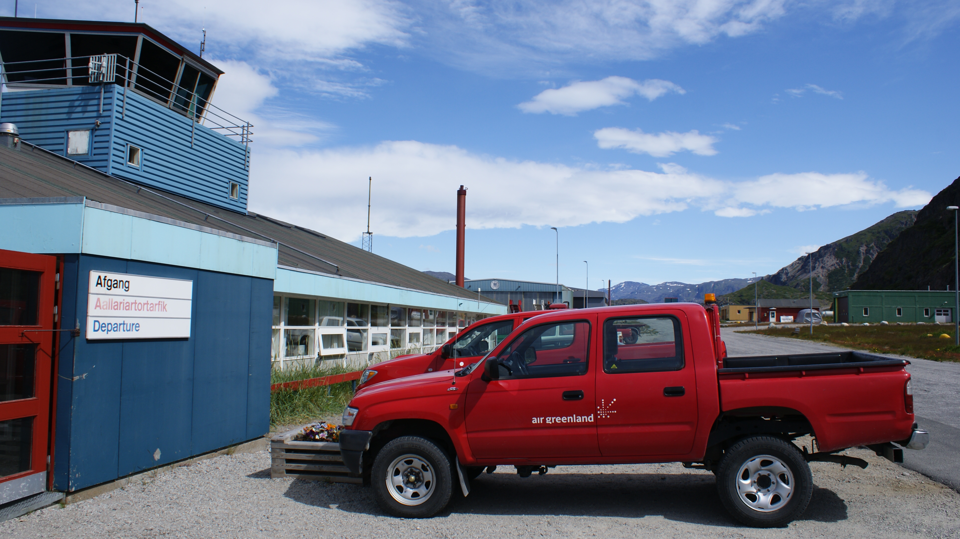 Narsarsuaq Airport, Greenland. Terminal.